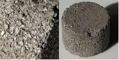 Titanium sponge cylinder, 120 grams. Original size in cm: 3 x 4.